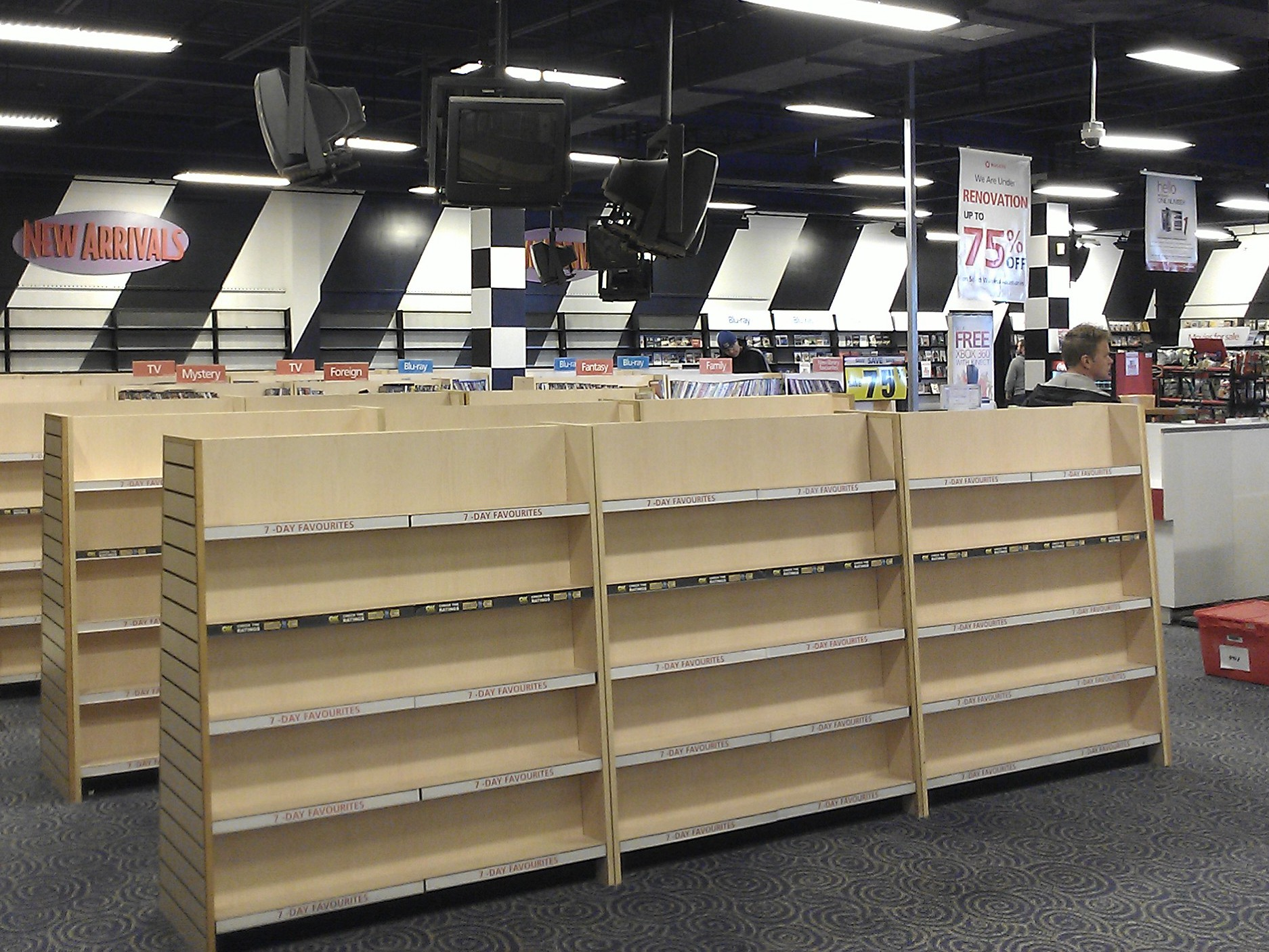 The entire interior of a Rogers Plus video rental store.